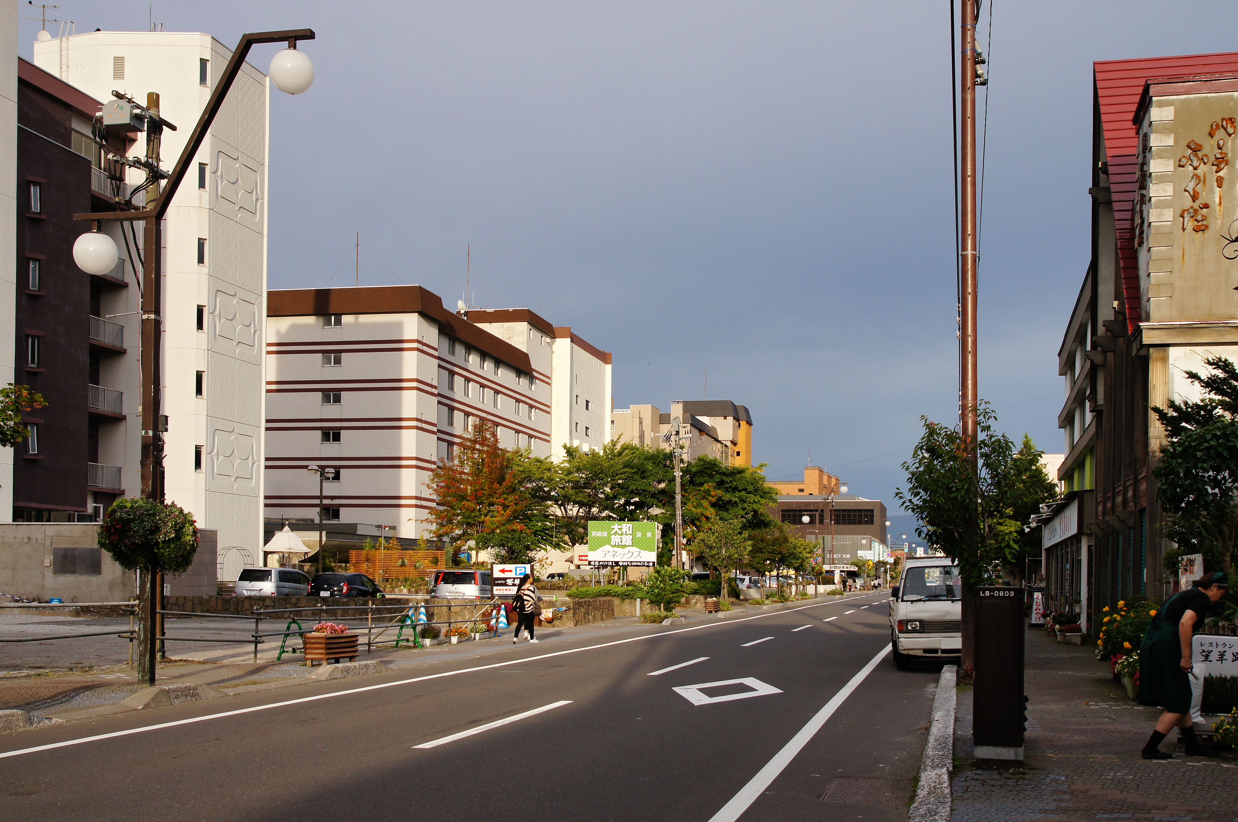 At Toyako Onsen in Toyako, Hokkaido prefecture, Japan.